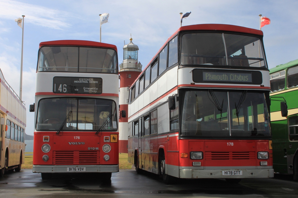 Two preserved Plymouth Citycoaches. On the left is 176 , a 1984 Leyland Atlantean with Charles Roe body registered B176 VDV; on the right 178, a 1991 Volvo B10M with East Lancashire body registered H178 GTT.